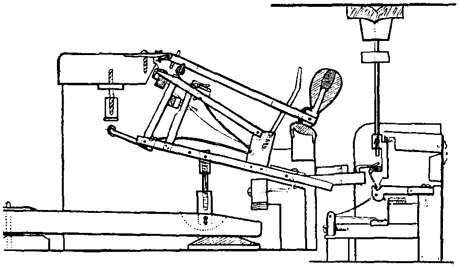 Sébastien Érard's double escapement piano action of 1884. The double escapement or repetition is effected by a spring in the balance pressing the hinged lever upwards, to allow the hopper which delivers the blow to return to its position under the nose of the hammer, before the key has risen again.